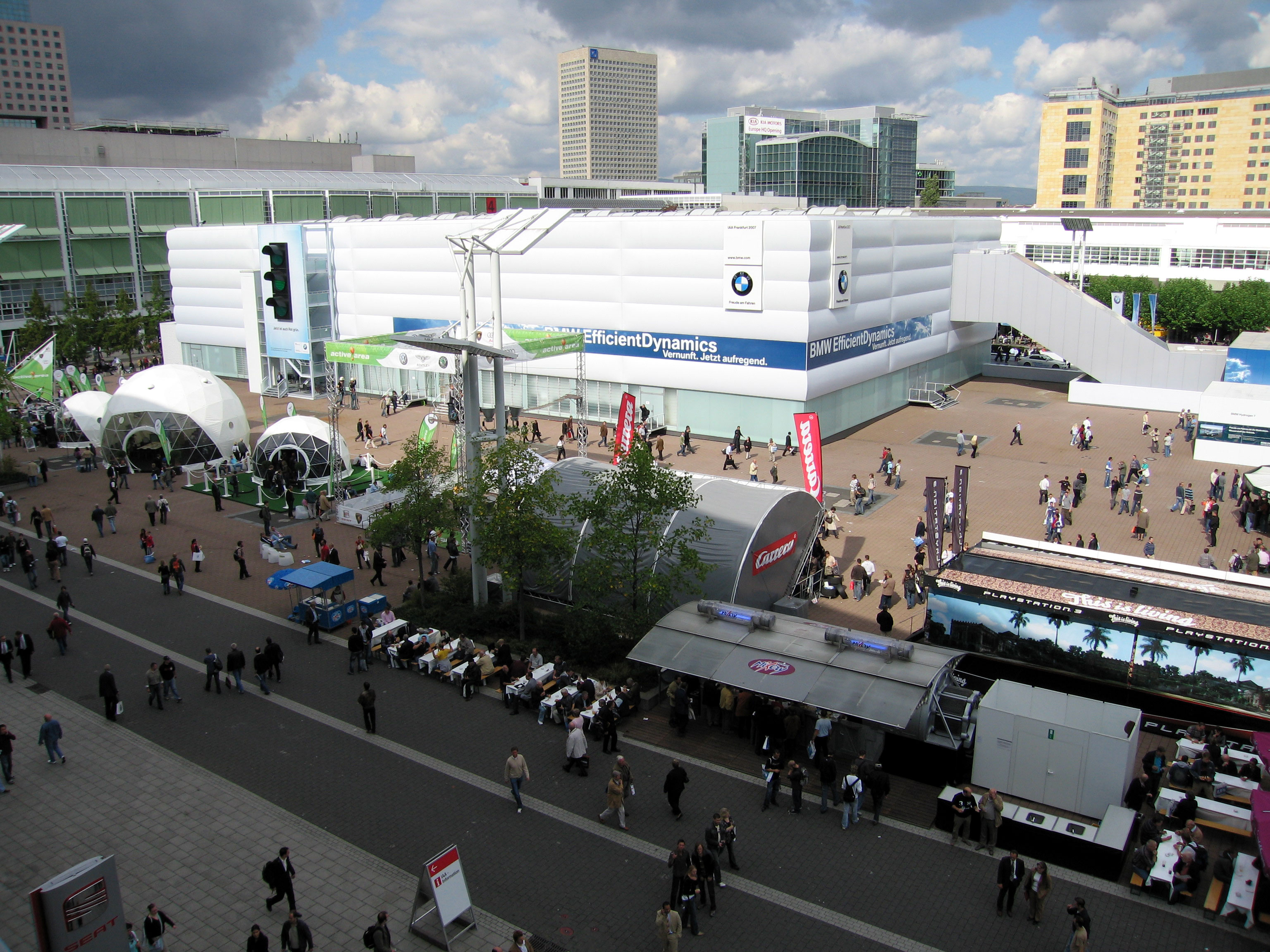 outer area of the IAA 2007